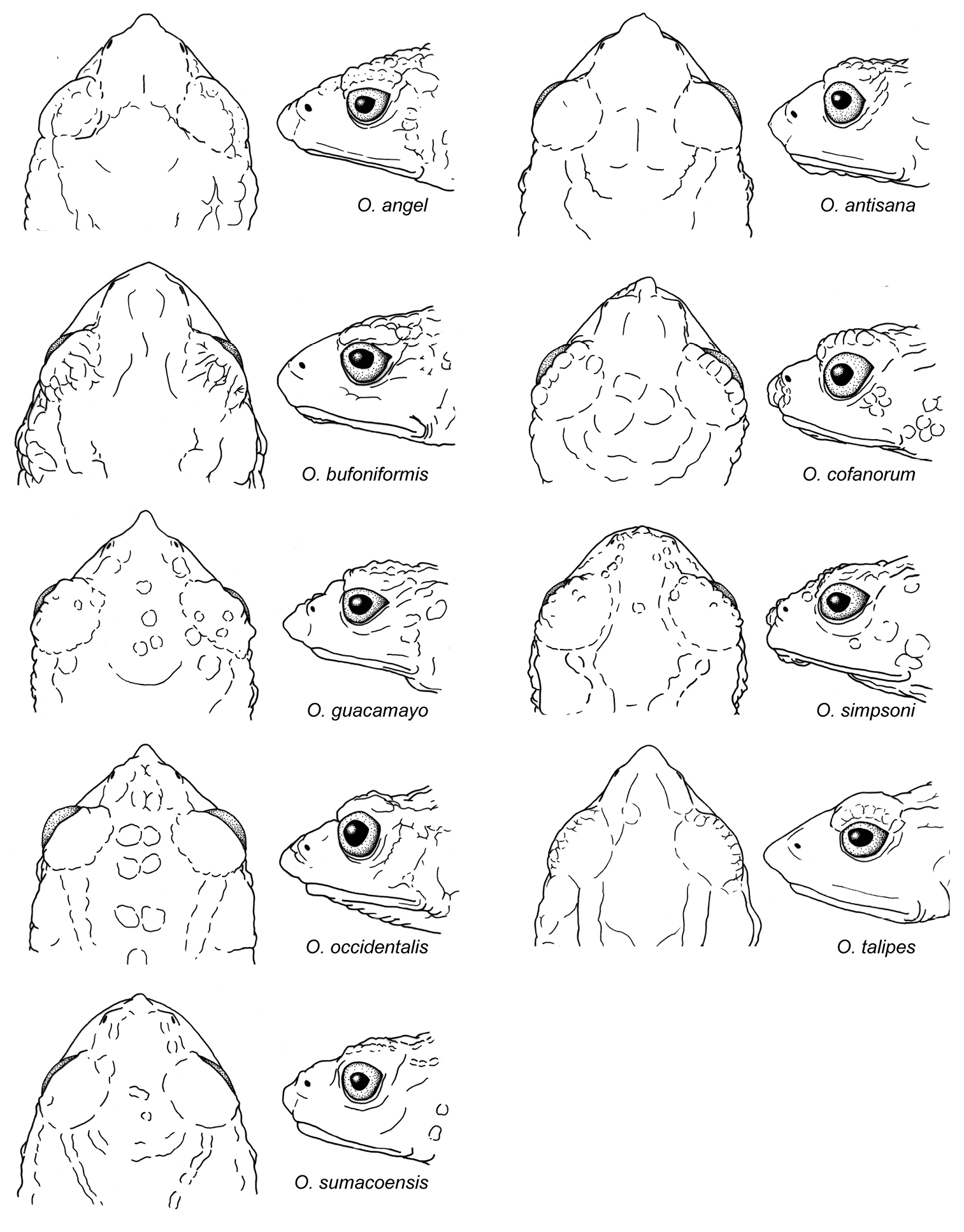 Head shape in dorsal and lateral views of Osornophryne males. Illustrated species are: Osornophryne angel, QCAZ 40048; Osornophryne antisana, QCAZ 48209; Osornophryne bufoniformis, QCAZ 45084; Osornophryne cofanorum, DH-MECN 6248; Osornophryne guacamayo, QCAZ 40106; Osornophryne simpsoni, QCAZ 49774; Osornophryne occidentalis, QCAZ 43529; Osornophryne sumacoensis, QCAZ 41246; Osornophryne talipes, ICN 12256. Not drawn at scale.